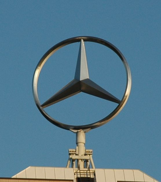 rotating Mercedes star in the former DaimlerChrysler group building in Stuttgart-Möhringen